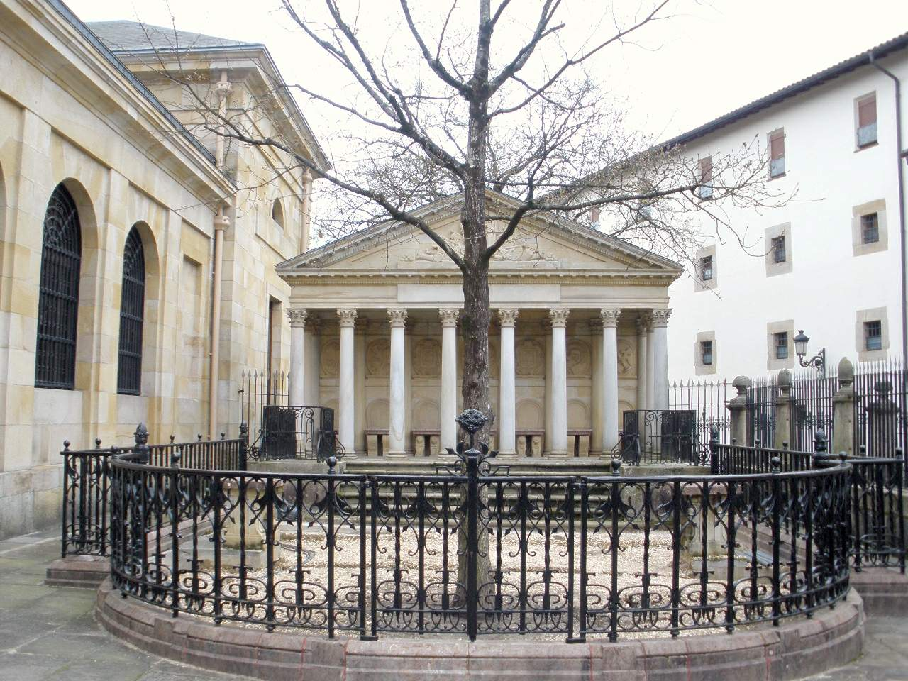 Árbol Nuevo, Casa de Juntas de Gernika